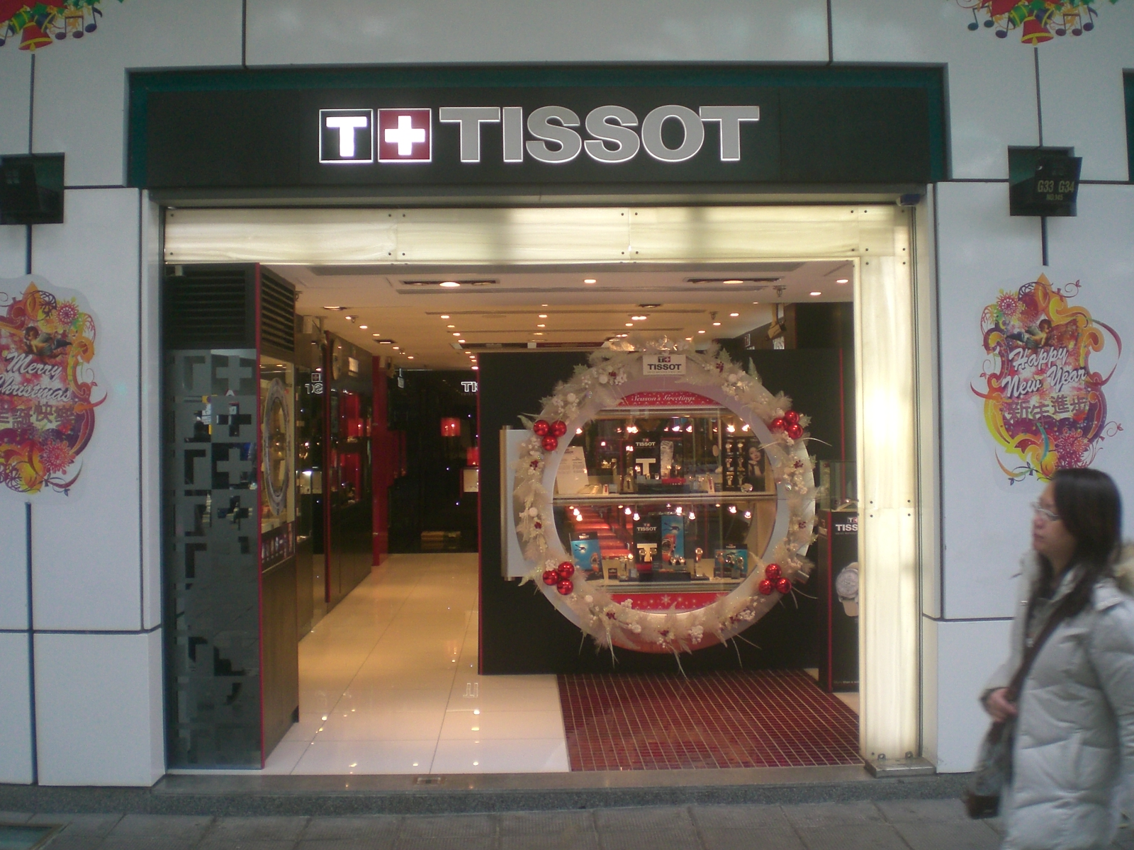 尖沙咀柏麗購物大道